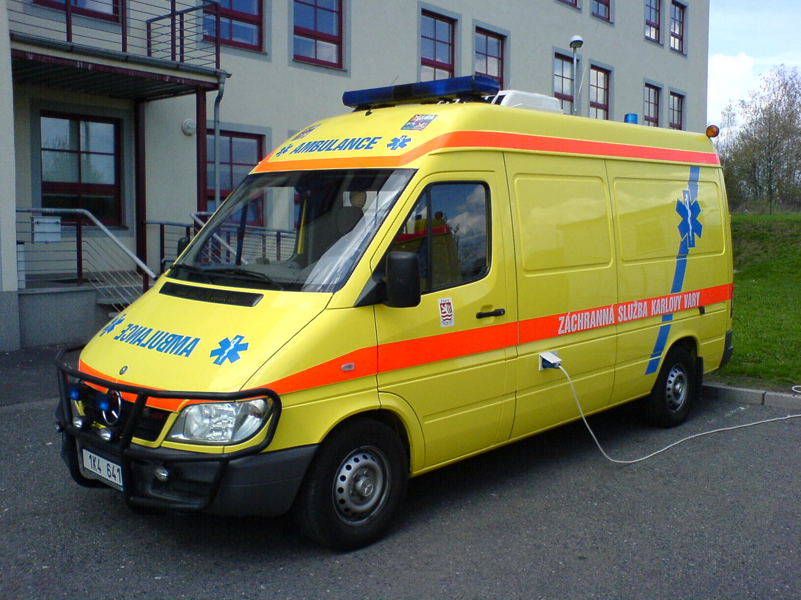 Mercedes Benz - Sprinter 316 CDI, 2,7CDI, 115 kW / 153 PS. Emergency medical service, with "AMBULANCE" in mirror writing ("ECNALUBMA").